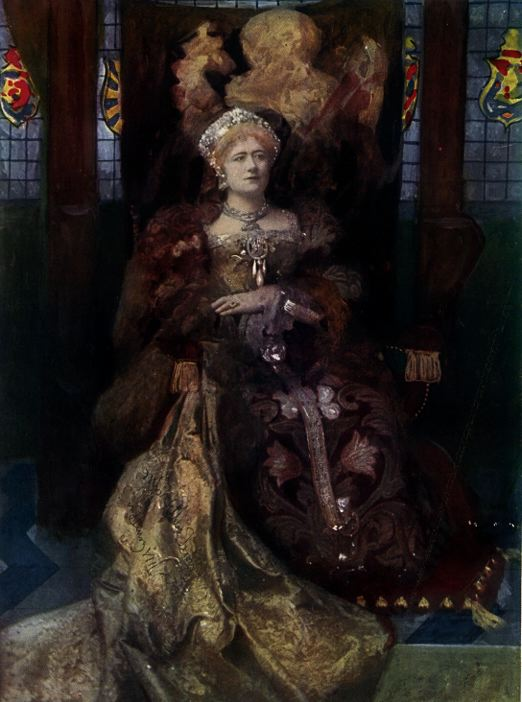 Dame Ellen Terry (1847-1928) as William Shakespeare's Queen Katherine of Aragon in his play Henry VIII. Dame Ellen is wearing a costume designed for a production of Henry VIII at the Lyceum in London by Sir Henry Irving (1838-1905).